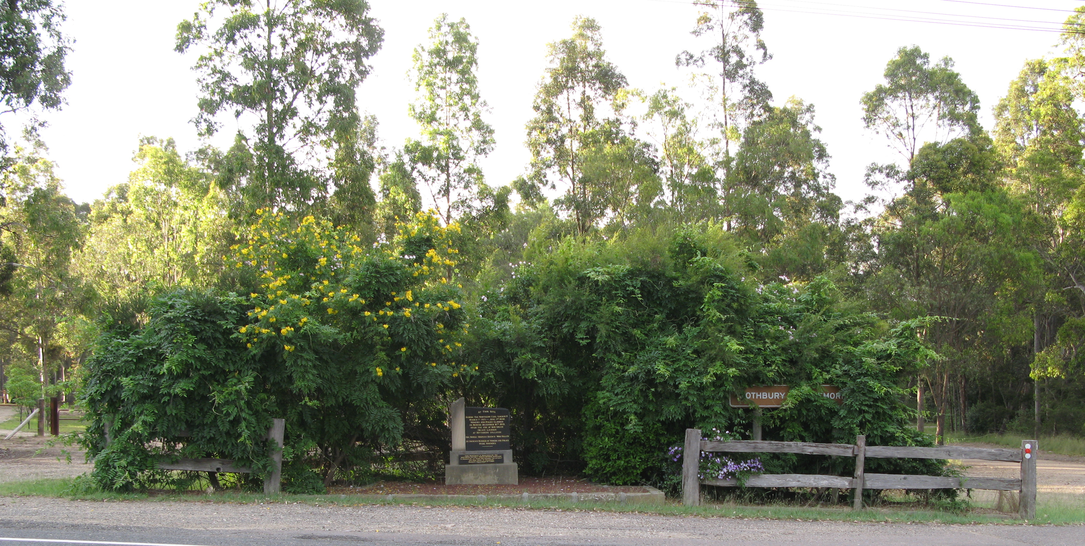 Memorial commemorating the death of a coal miner, Norman Brown, during a lockout at Rothbury coal mine, New South Wales Australia, on December 16, 1929.